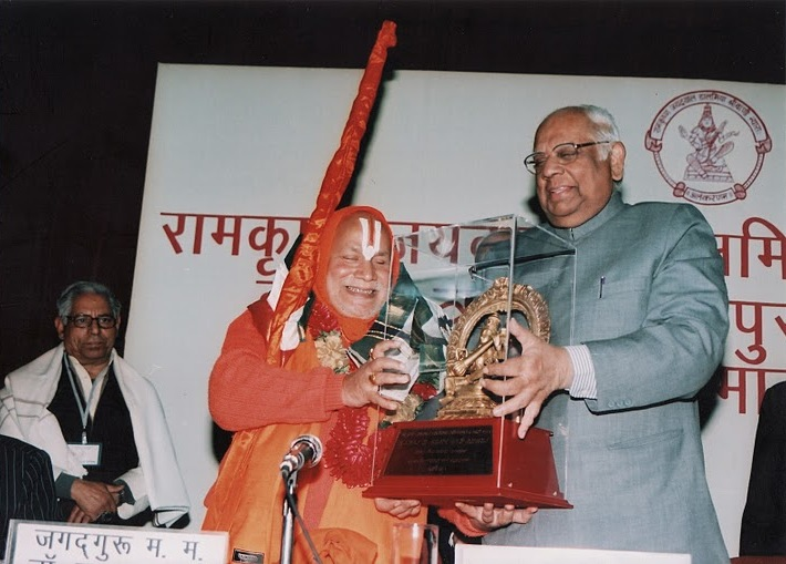 Jagadguru Rambhadracharya being presented the Shri Vani Alankaran award by Somnath Chatterjee